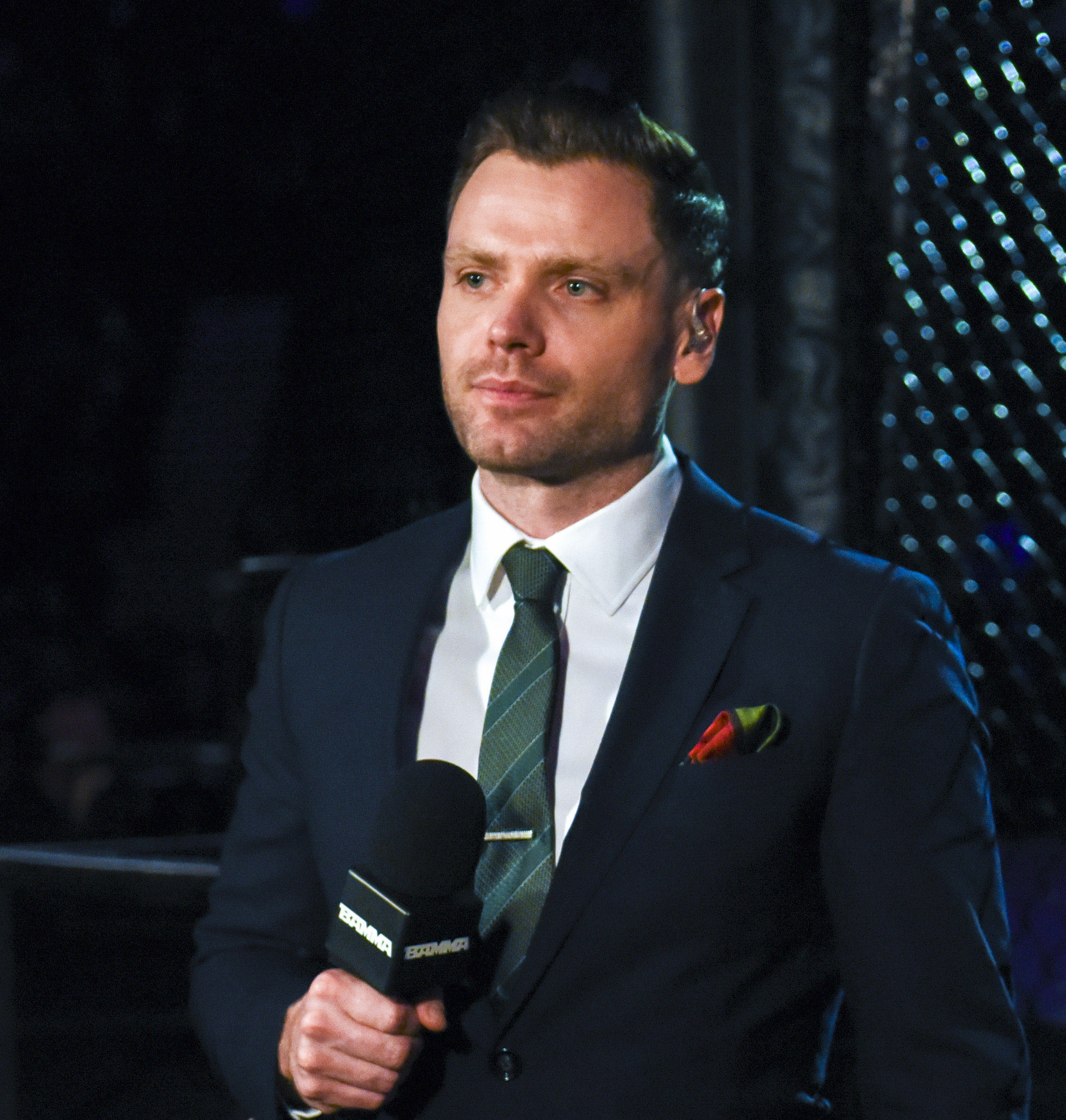 Andy Shepherd hosting BAMMA 33 in Newcastle, December 15th, 2017